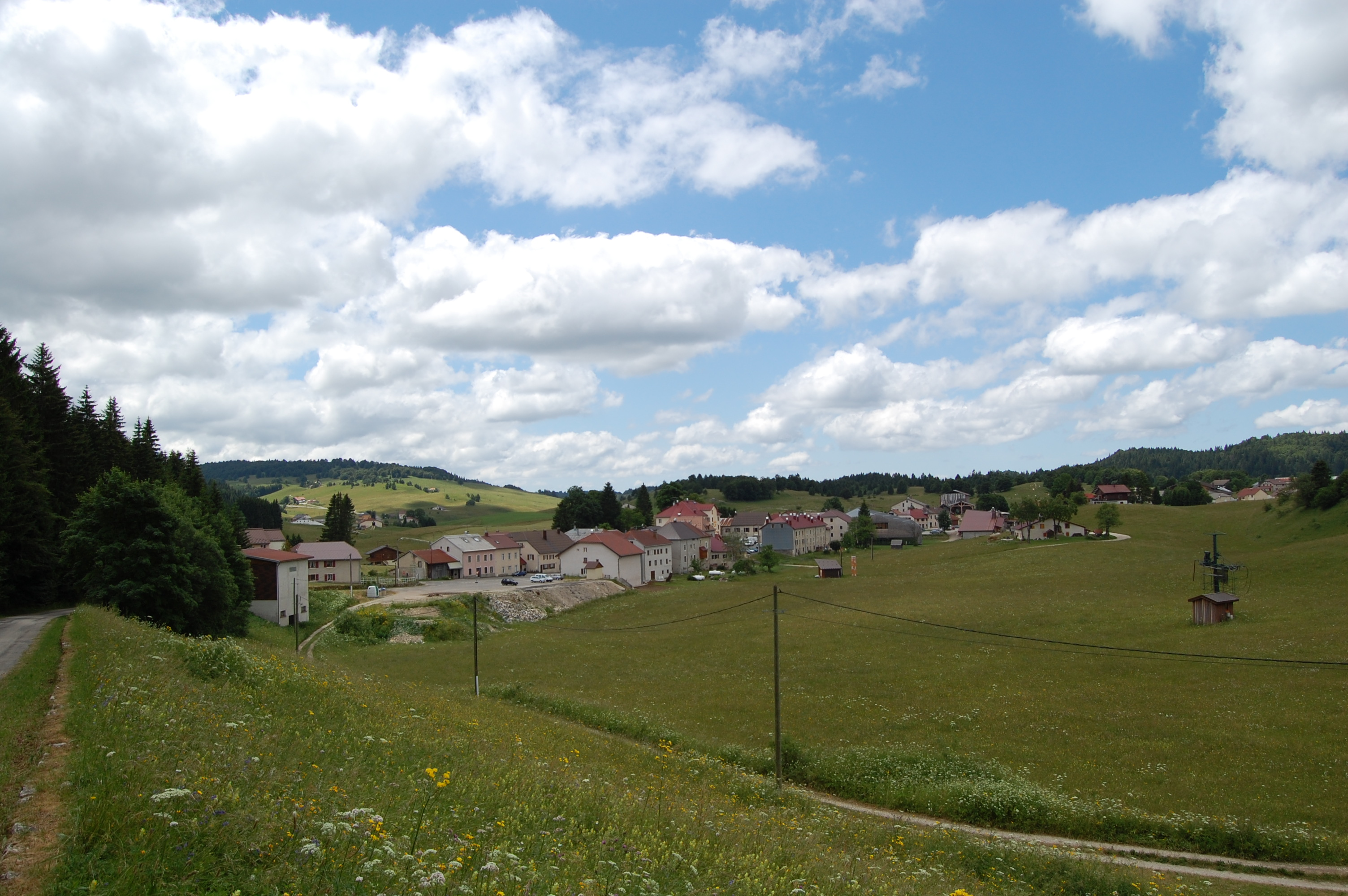 Village Lajoux in the département Jura, France.